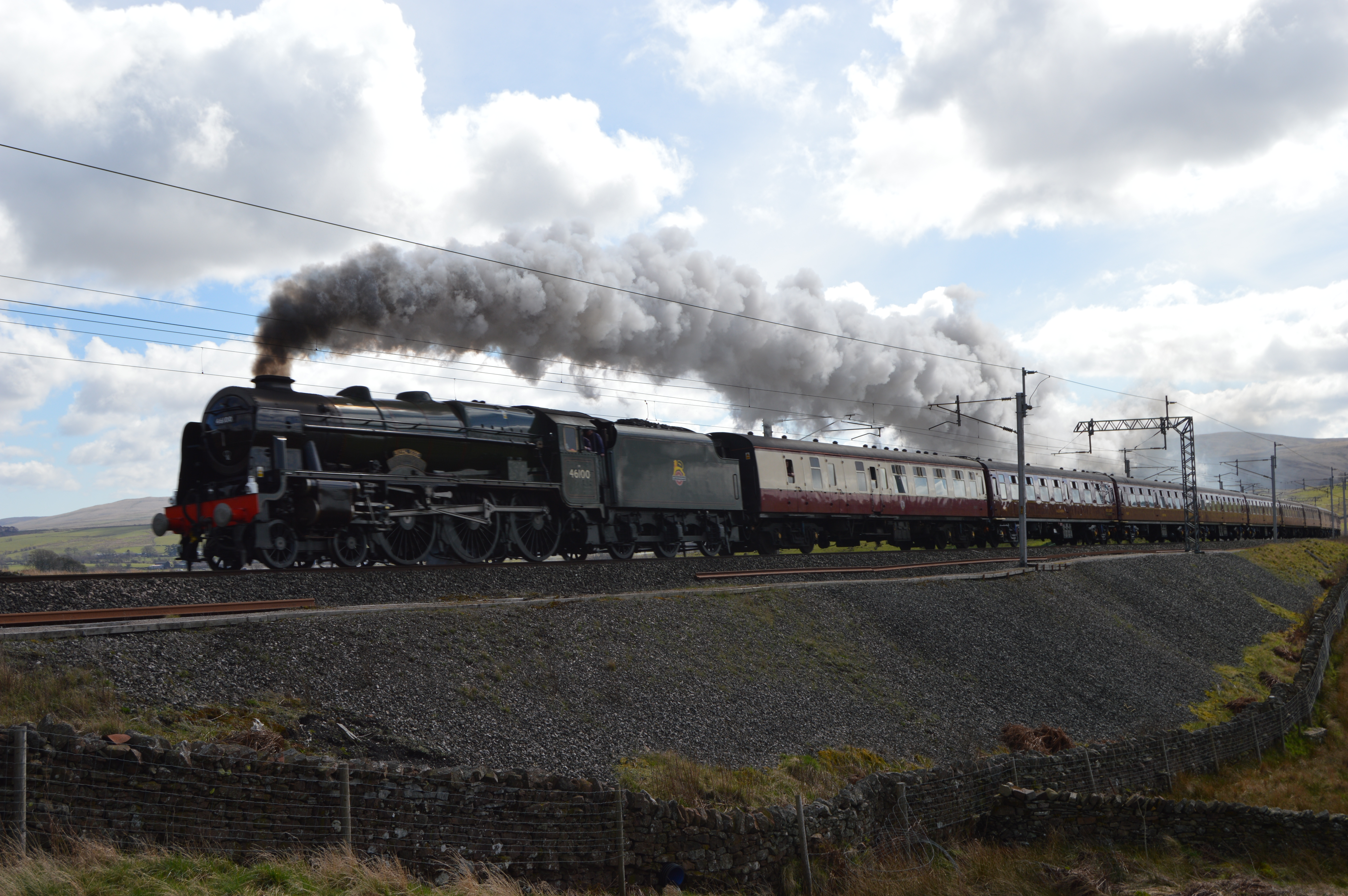 Royal Scot storming up Shap with the outward leg of "The Cumbrian Coast Express", this was to be her first trip up Shap Summit since her withdrawl from BR in 1962.